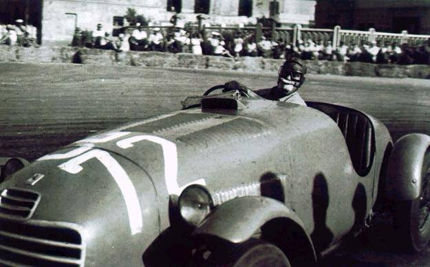 Tazio Nuvolari with respiratory mask (?) towards his win in entry #72, the 1947 Ferrari 125 S s/n 02C at Circuito Forlì on 6 July 1947.[1] This was one of the first Ferrari automobiles ever made.